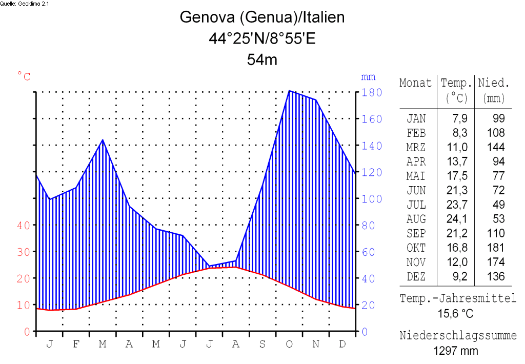 climate chart in the format by Walter and Lieth, metric, °Celsisus and millimeters, made with Geoklima 2.1